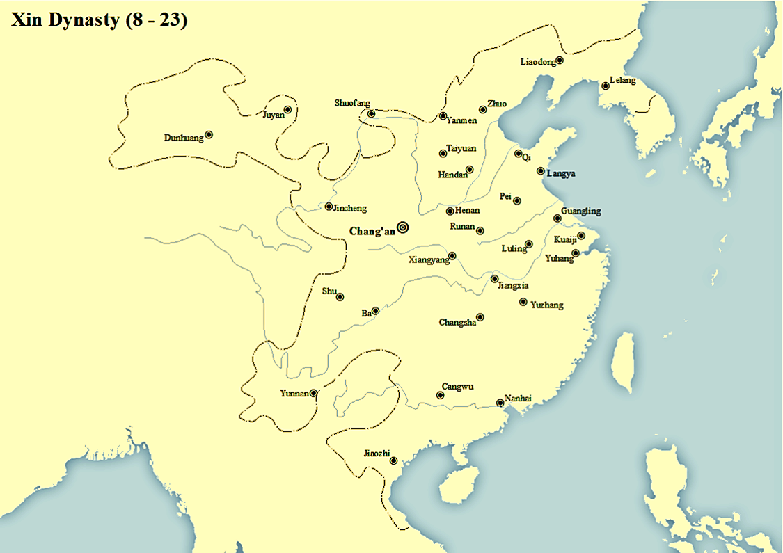 Map of Xin Dynasty (8 - 23 AD) 中文（中国大陆）: 王莽的新朝